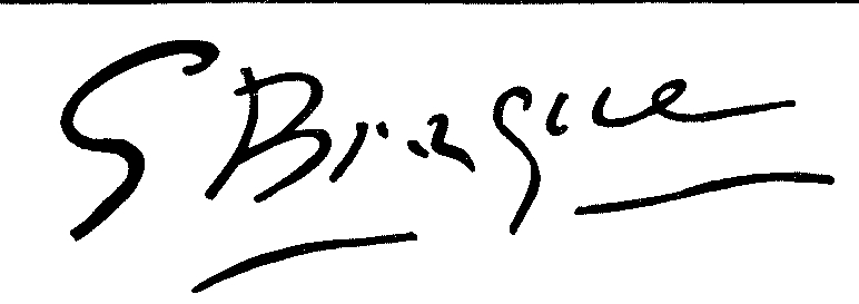 Scan aus Classified Signaturs of Artists